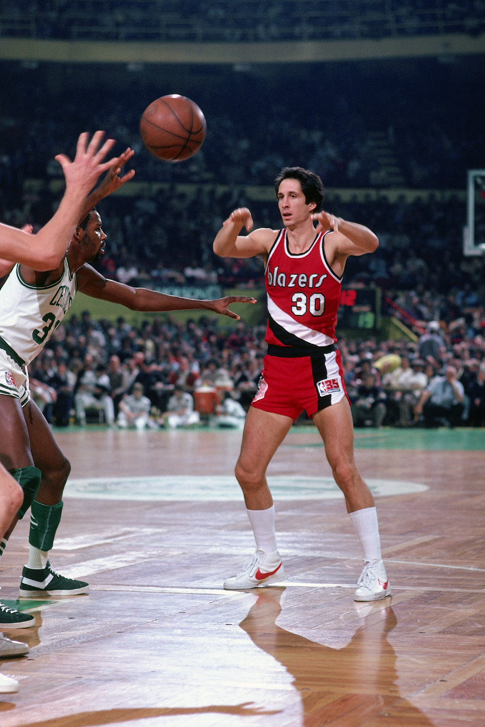 Professional basketball player Bob Gross